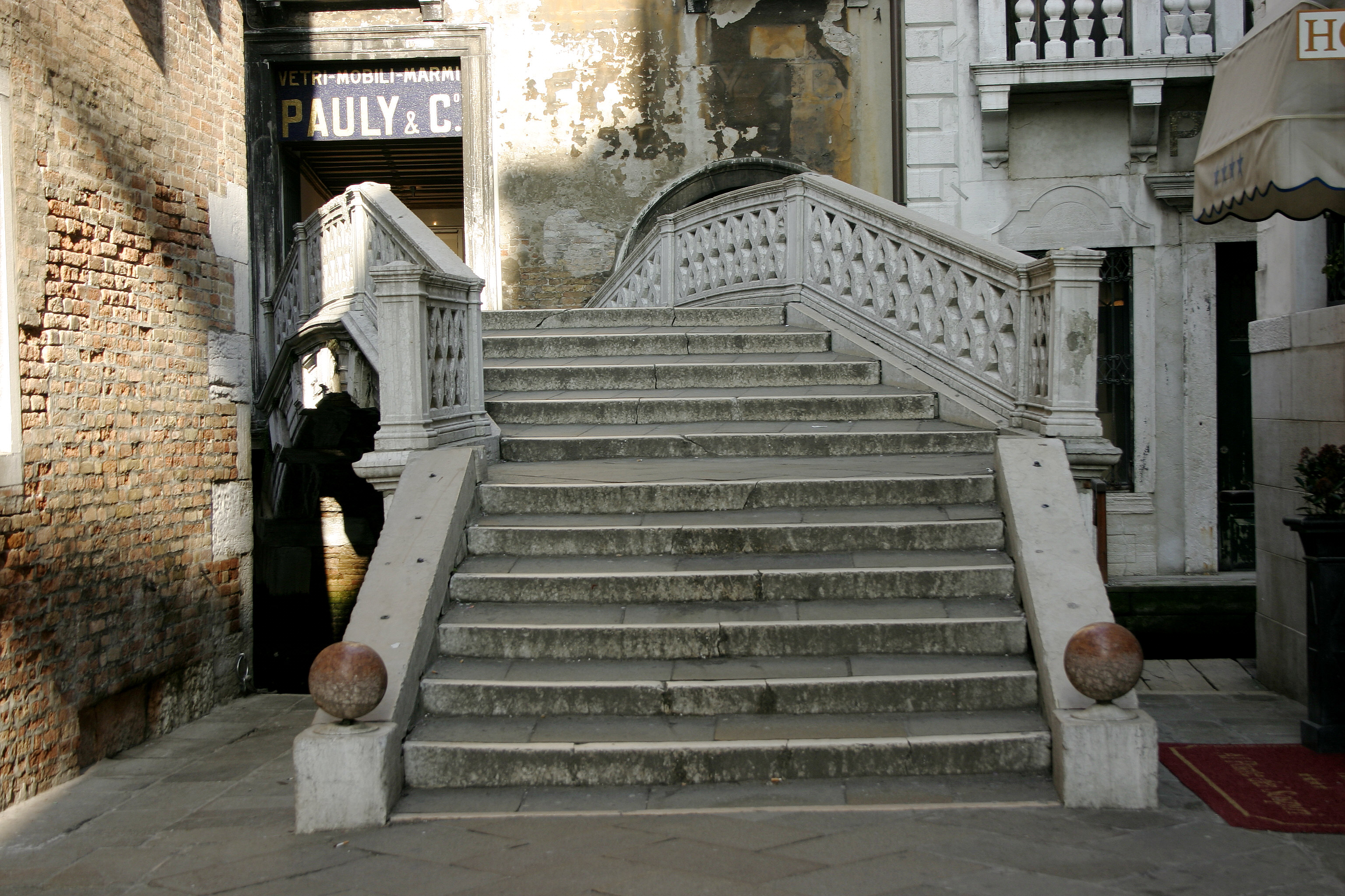 Privat bridge